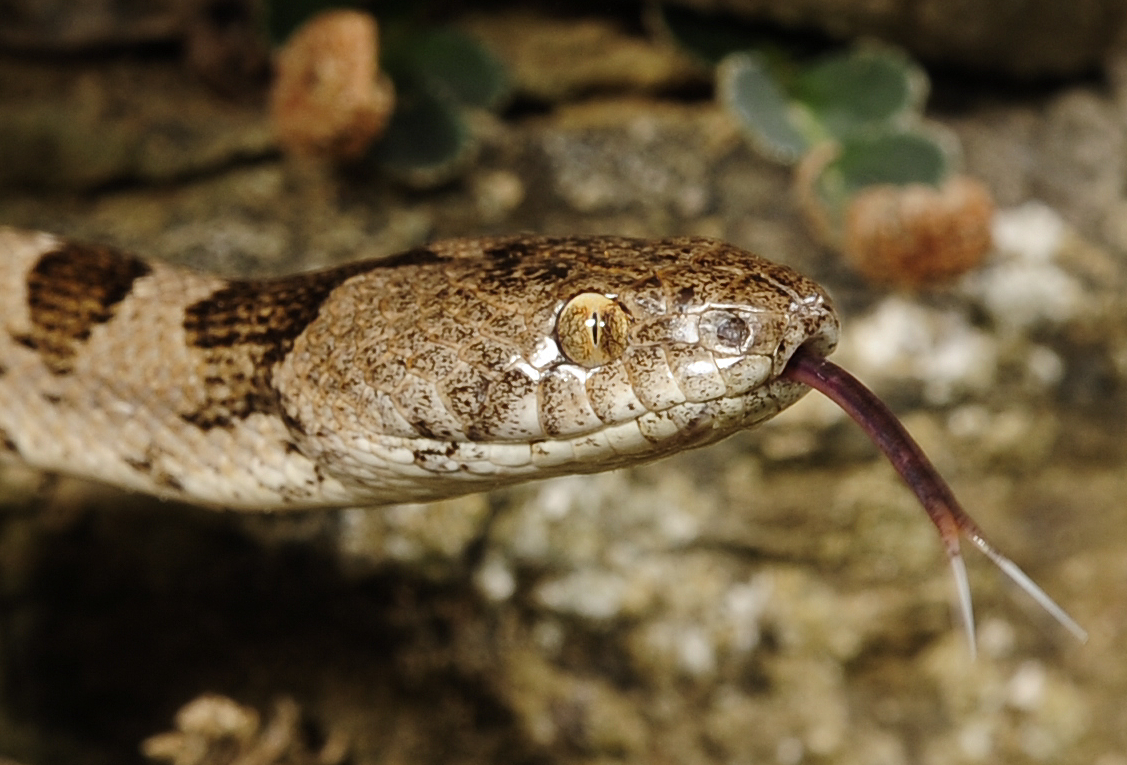 European cat snake (Telescopus fallax), head.